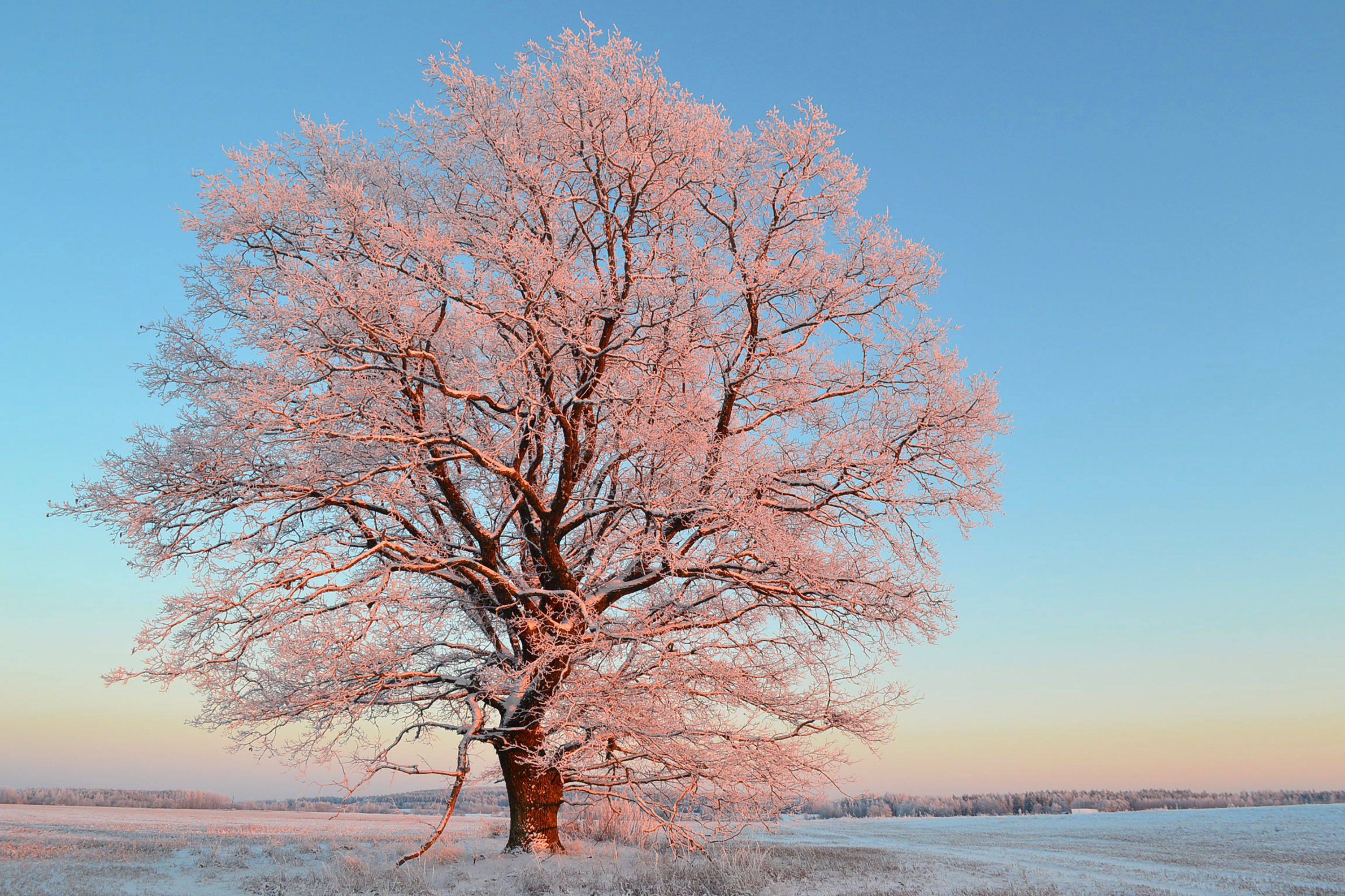 Oak tree (Quercus robur) on the coldest day in the winter of 2016.